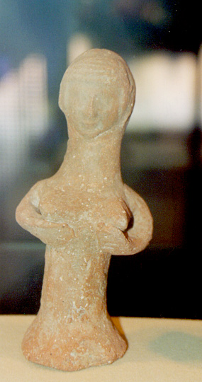 Pillar figurine of the goddess Asherah. Judea, 8-6th c. BCE. Eretz Israel Museum. Terracotta.